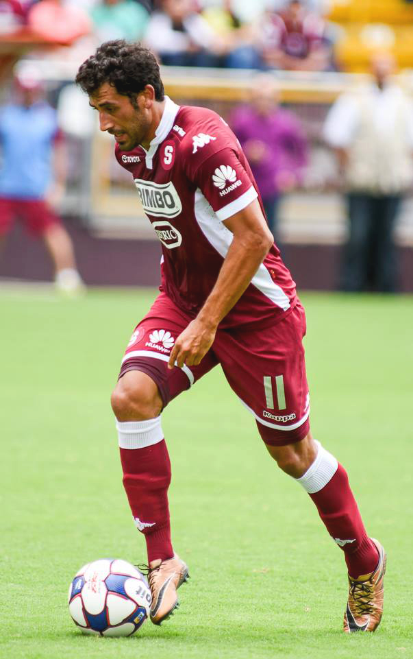 Fabrizio Ronchetti playing for Deportivo Saprissa in 2016.